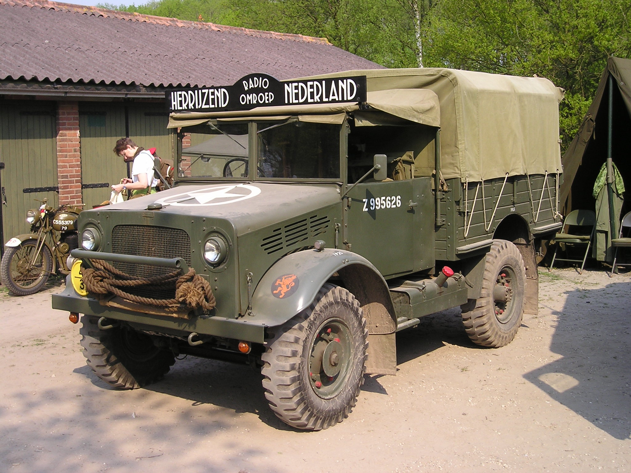 Bedford MW